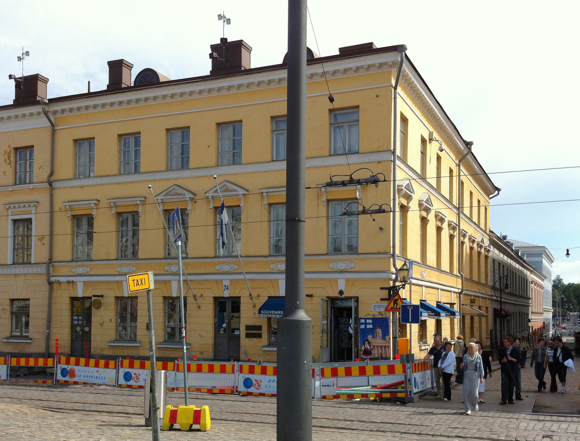 Hellenius house, Aleksanterinkatu 24, Senaatintori, Helsinki